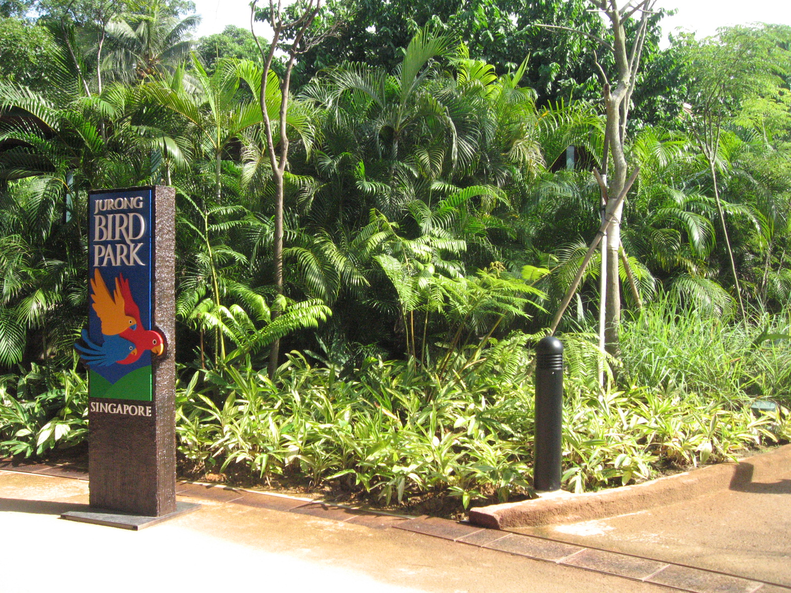 Jurong BirdPark, Singapore. Taken by Terence Ong in November 2006.